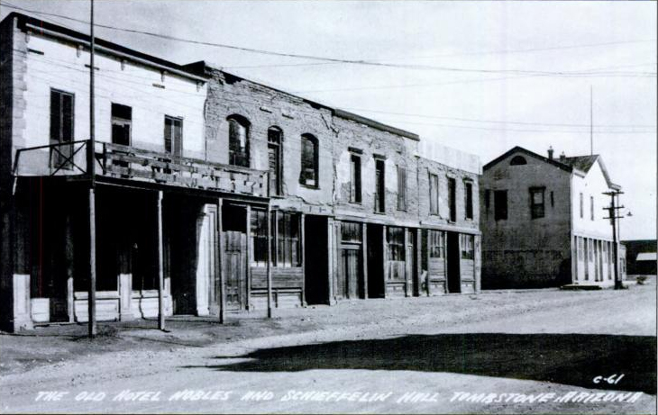 The "Gird Block" in Tombstone, Arizona, housing (L-R) the Old Hotel Nobles, the Tombstone Epitaph, and the Mining Exchange Building. The Mining Exchange was where the Earps and Doc Holliday defended themselves against murder charges after the Gunfight at the O.K. Corral. At far right is Schieffelin Hall.